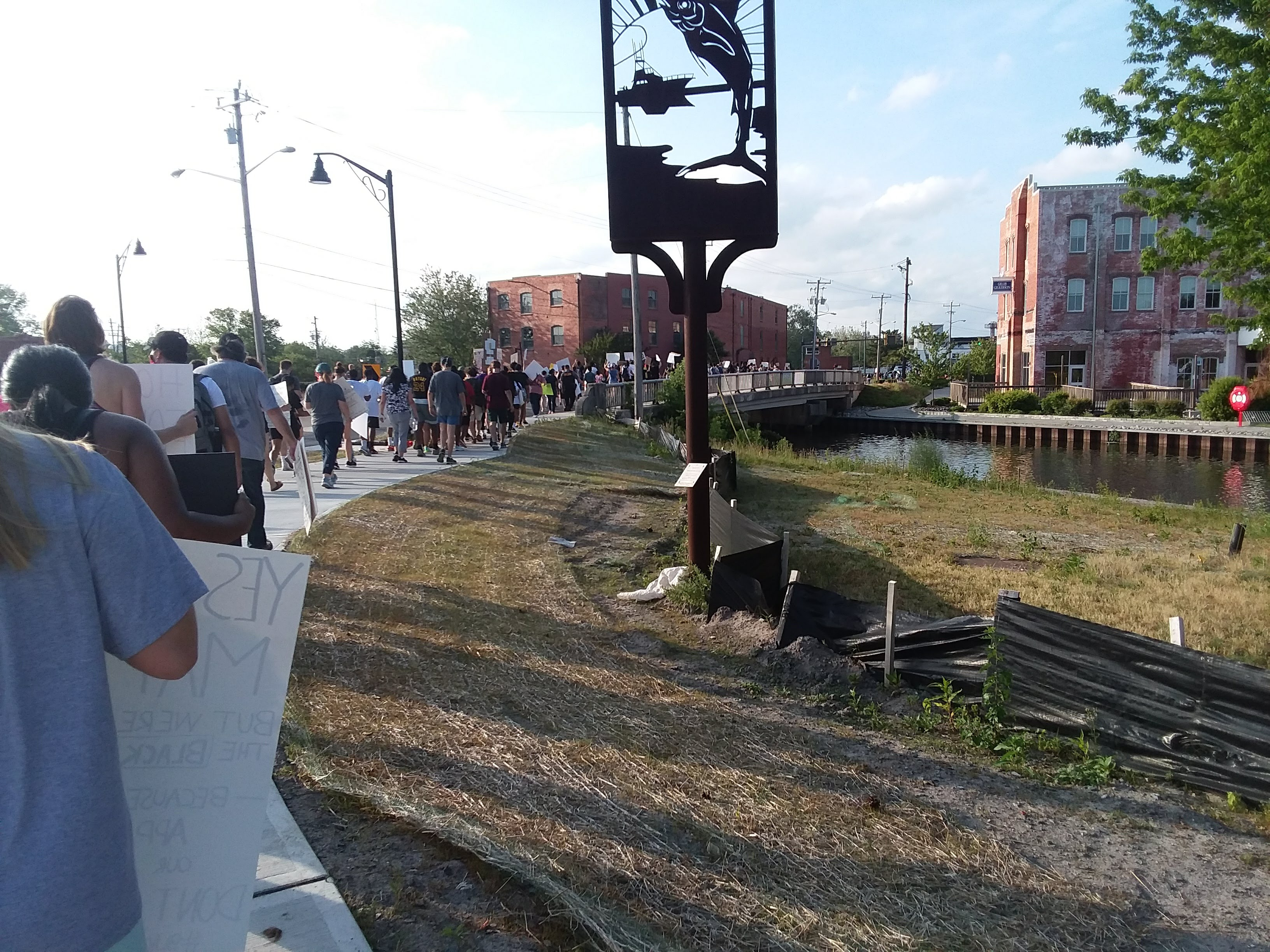 People protesting George Floyd's death march across the Mill Street Bridge in Salisbury, Maryland.